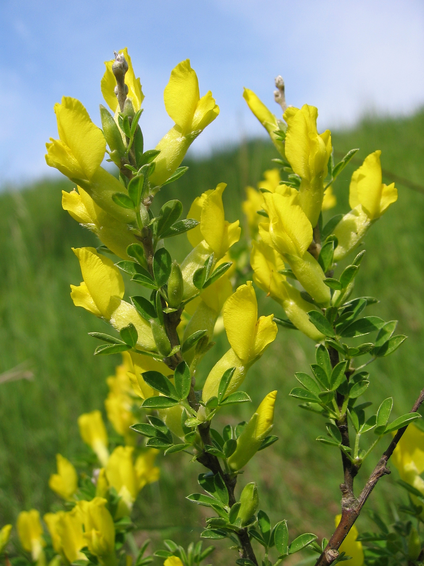 Chamaecytisus ratisbonensis NSG Near Wels, Upper Austria, Austria